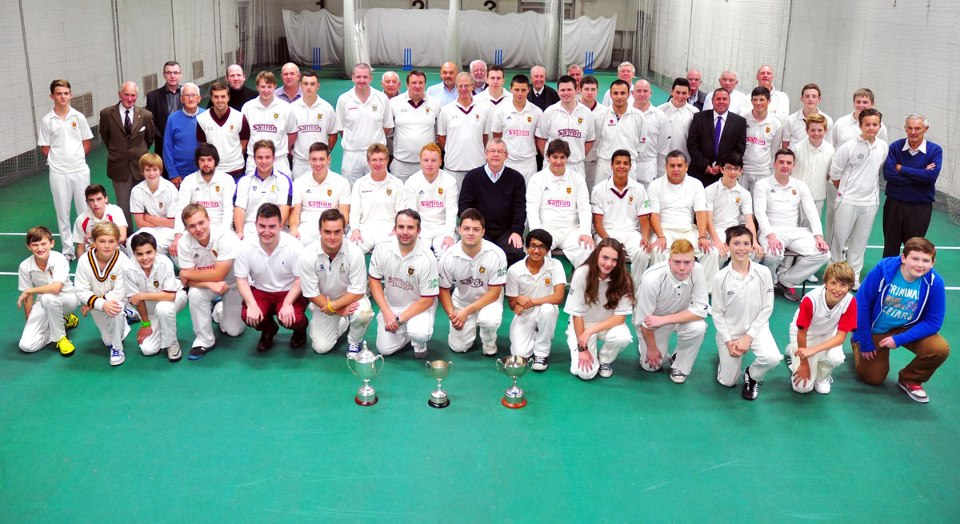 Birkenhead Park Cricket Club members